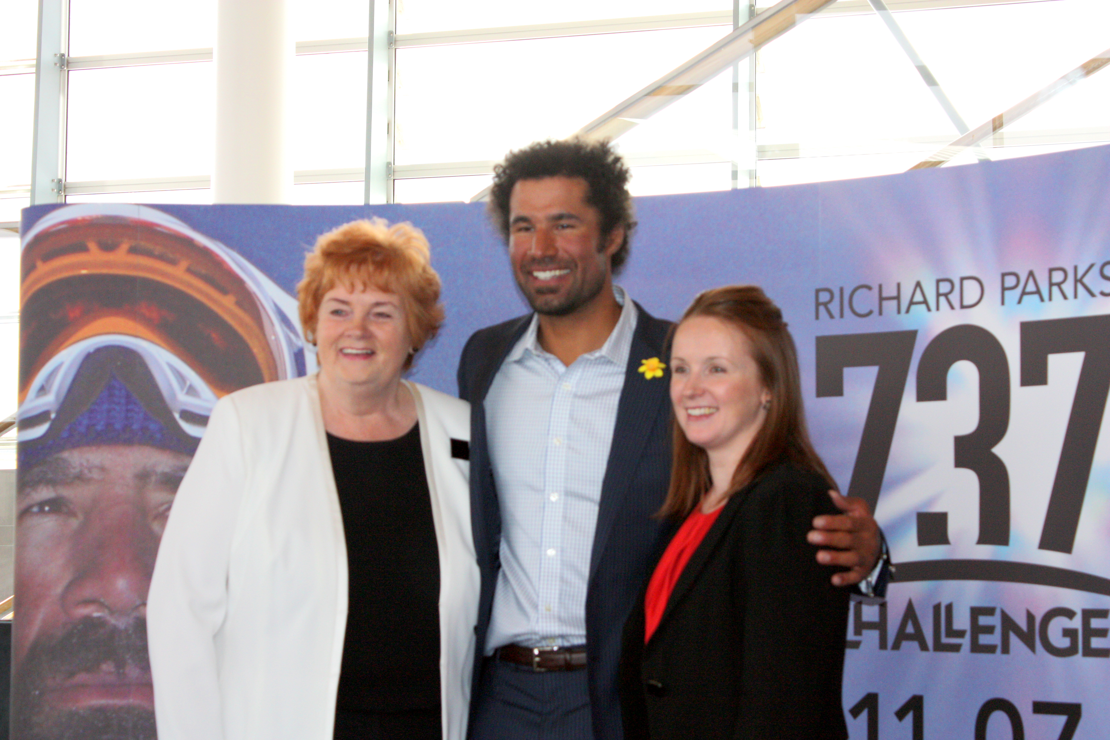 737 Challenge at the National Assembly for Wales, Cardiff, Wales